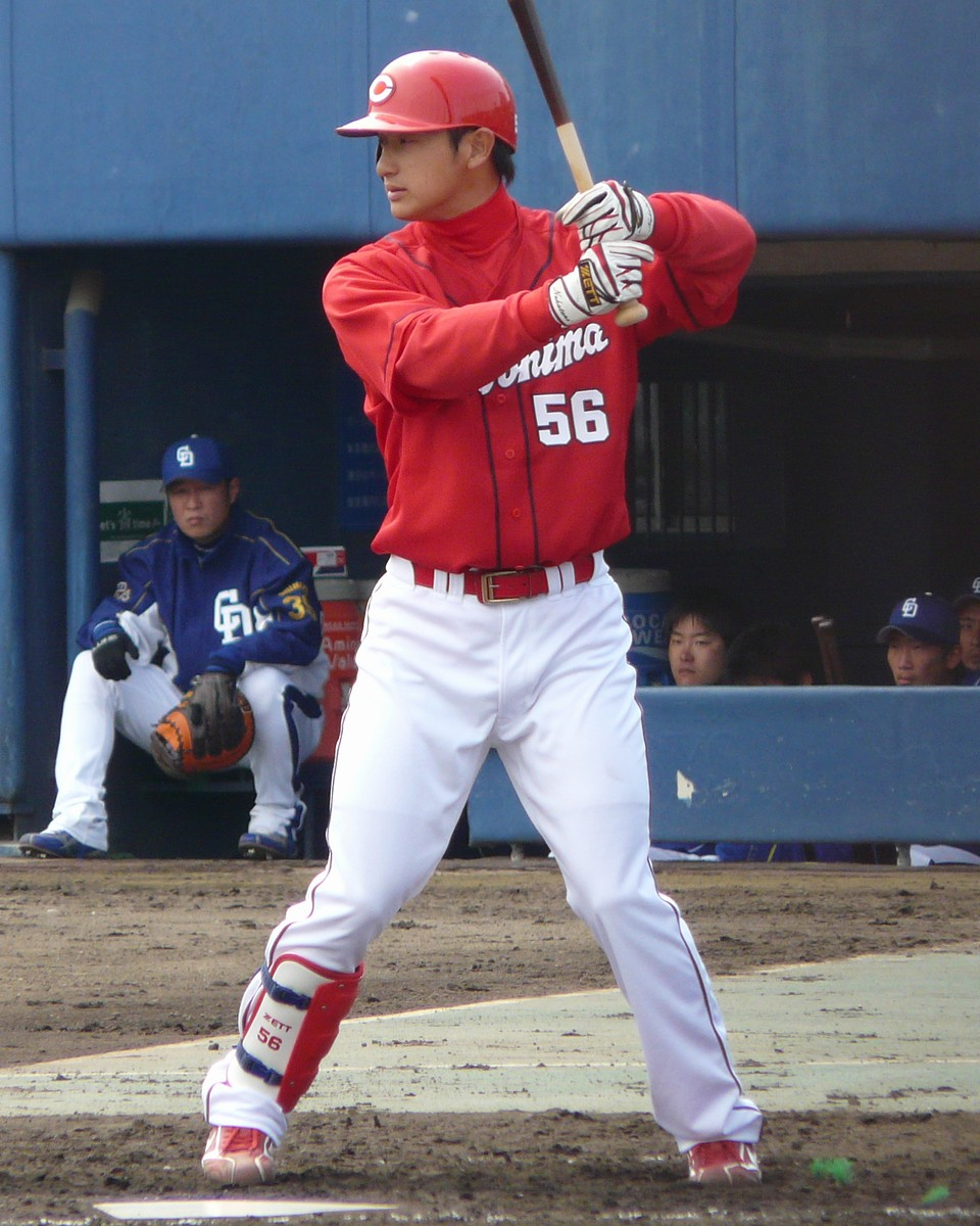 Tsubasa Nakatani, infielder of the Hiroshima Toyo Carp, at Nagoya Baseball Stadium.